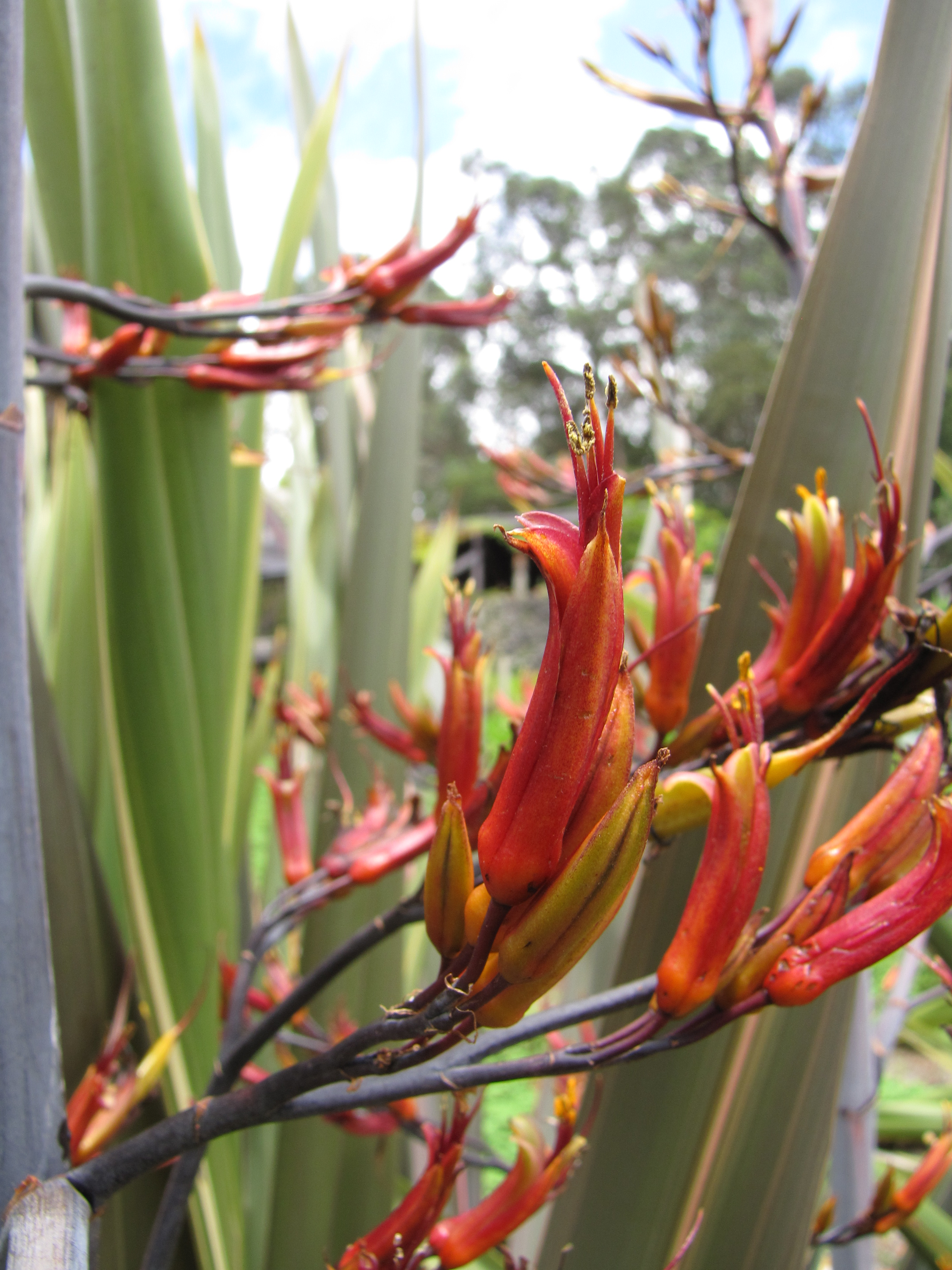 Phormium tenax (New Zealand flax) Flowers at Waipoli Rd Kula, Maui, Hawaii. June 16, 2010 #100616-7087 Image Use Policy Also placed in Agavaceae.